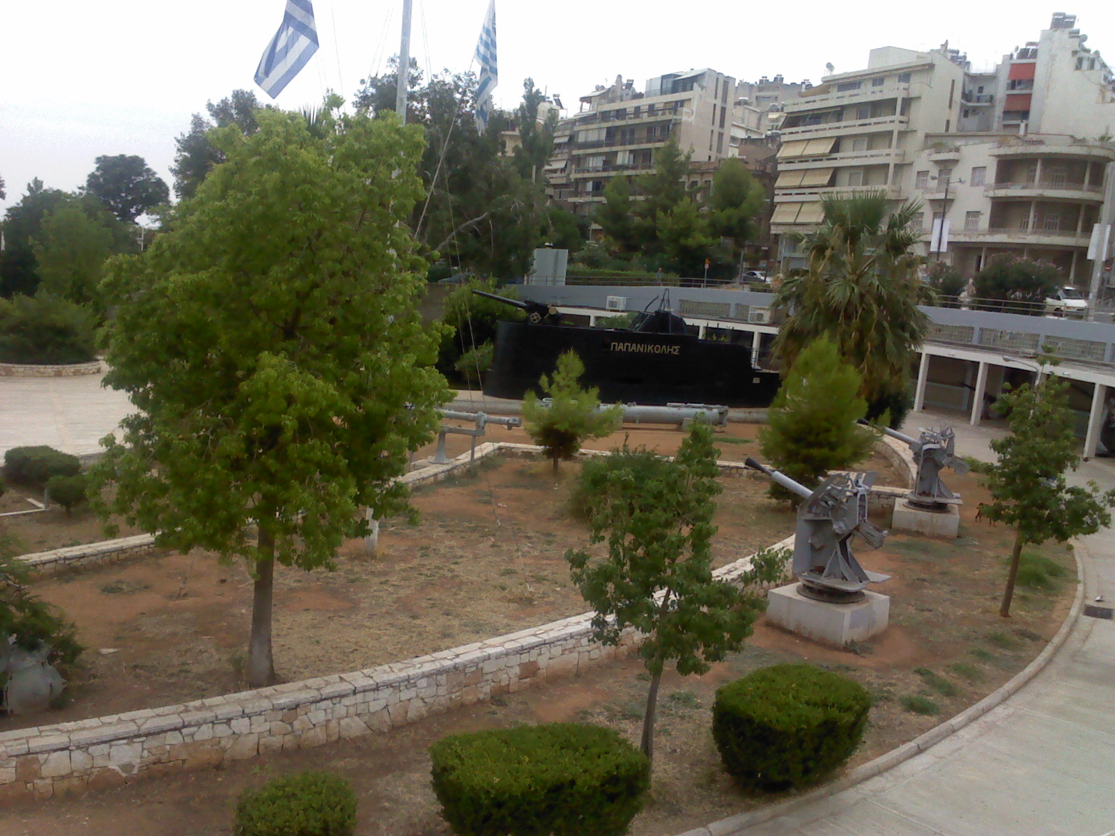 Submarine Papanikolis